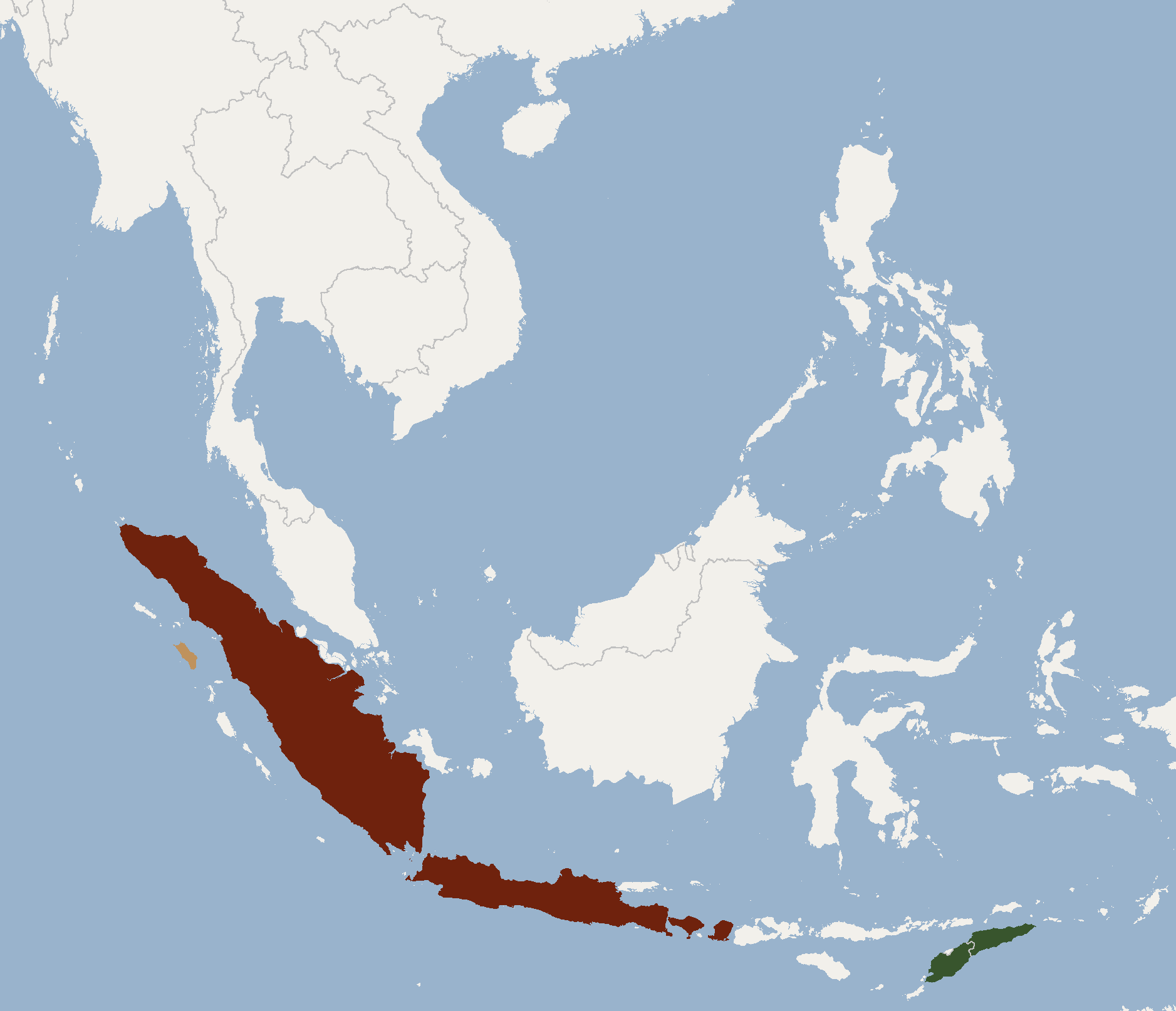 According to Corbet & Hill, 1992